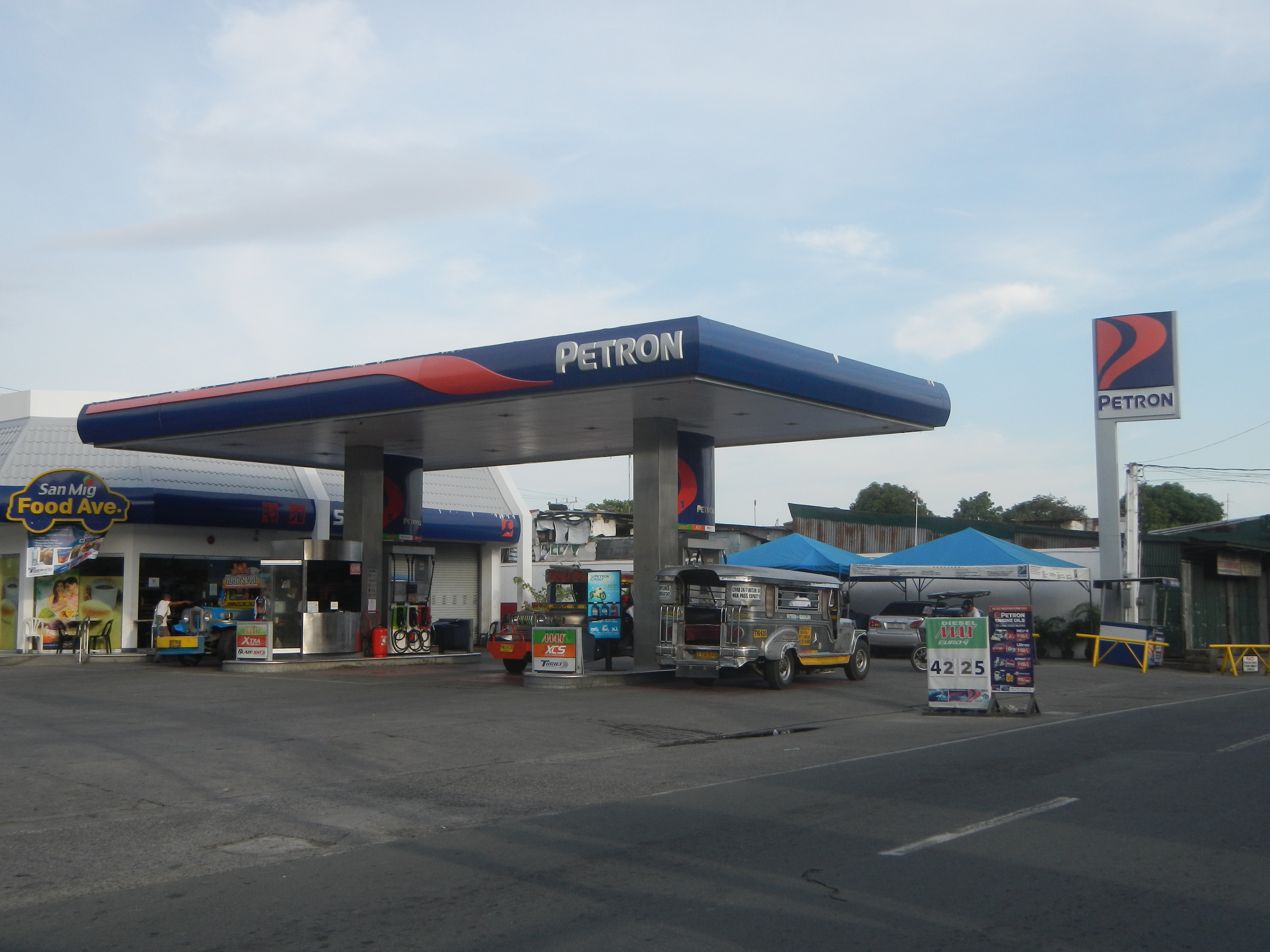 Country Builders Bank Pateros Coliseum Centennial (1896-1996, Kap. T N L), Dedication to the Heroes of 1896 Revolution (Martirez del '96, Pateros, Metro, Manila) Pateros Municipal Hall Complex - Interior and Exterior ; Base, population density and vicinity maps of Pateros, Metro, Manila; Freedom Fighters of Pateros (World War II) Memorial List of barangays of Metro Manila, Legislative district of Pateros–Taguig Barangays Aguho 14°32'35"N 121°3'50"E Poblacion Poblacion 14°32'40"N 121°4'0"E San Roque 14°32'34"N 121°4'11"E Martirez del 96 14°32'23"N 121°3'58"E Santa Ana 14°32'40"N 121°4'22"E Magtanggol 14°32'52"N 121°4'16"E Santo Rosario Silangan 14°32'58"N 121°4'25"E Santo Rosario Kanluran 14°33'9"N 121°4'9"E Tabacalera 14°32'58"N 121°4'4"E Pateros National High School (San Pedro) 14°32'50"N 121°3'58"E Pateros, Metro Manila Metro Manila Pateros Bridge 14°32'45"N 121°3'54"E B. Morcilla Street 14°32'41"N 121°4'1"E (Note: Judge Florentino Floro, the owner, to repeat, Donor Florentino Floro of all these photos Judge Floro hereby donate gratuitously, freely and unconditionally all these photos to and for Wikimedia Commons, exclusively, for public use of the public domain, and again without any condition whatsoever).